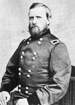 John Parker Hawkins (1830-1914) was a career officer of the United States Army who served as brigadier general during the American Civil War, 1865 photo